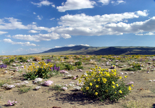 Desert blooms in Hanford Reach National Monument, Washington, USA